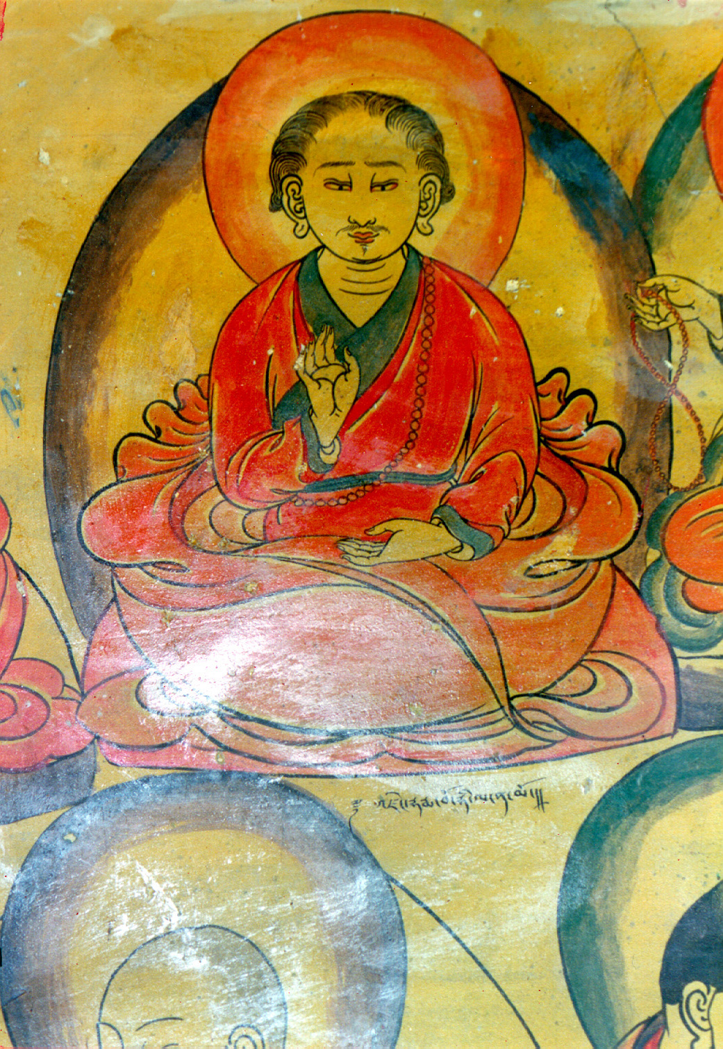 Dharmabhodi, (b.1052 - d.1168) - Dzogchen teacher, Tibet